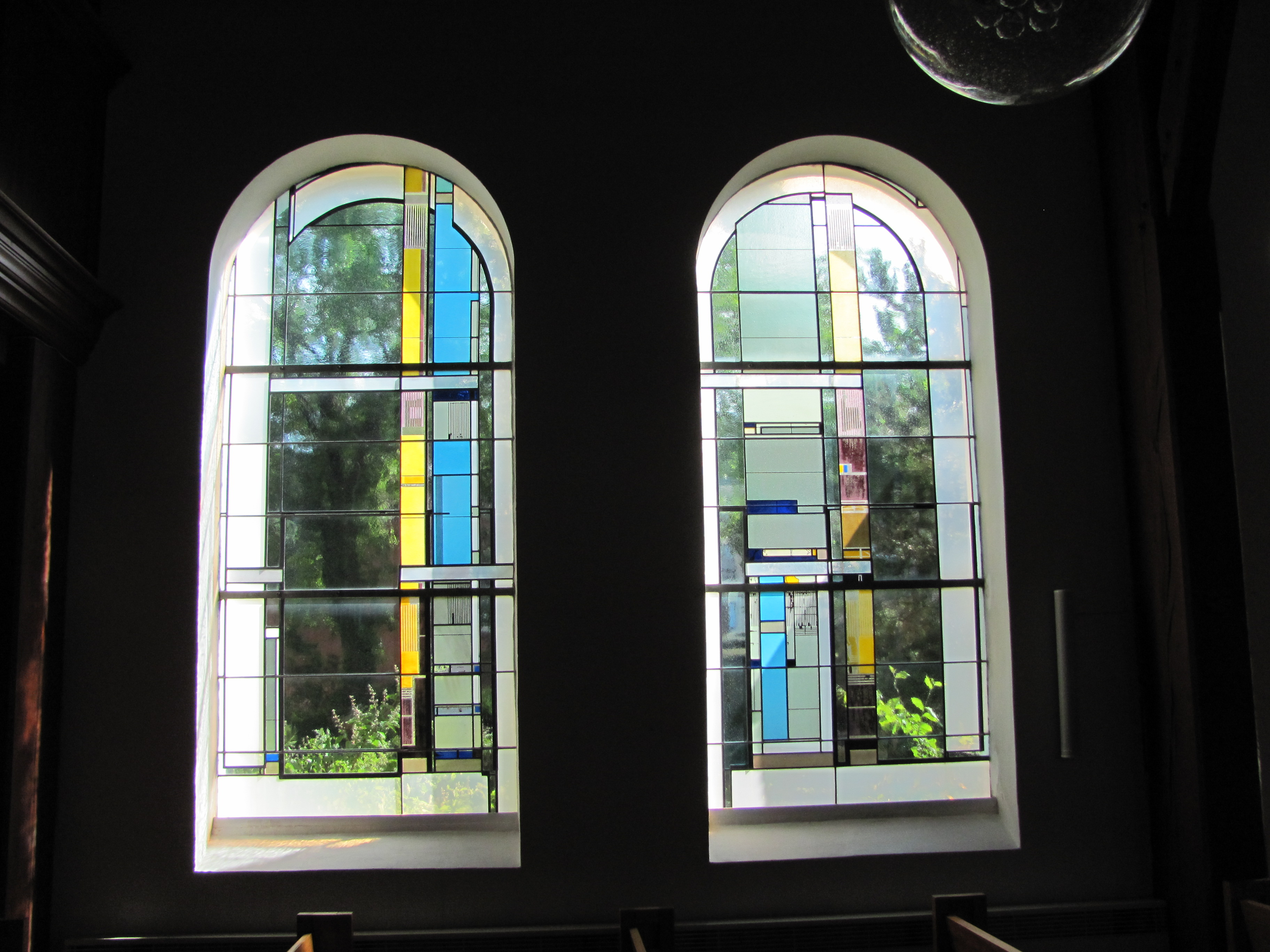 Christuskirche (Lutheran church), Borkum, Germany, stained glass windows